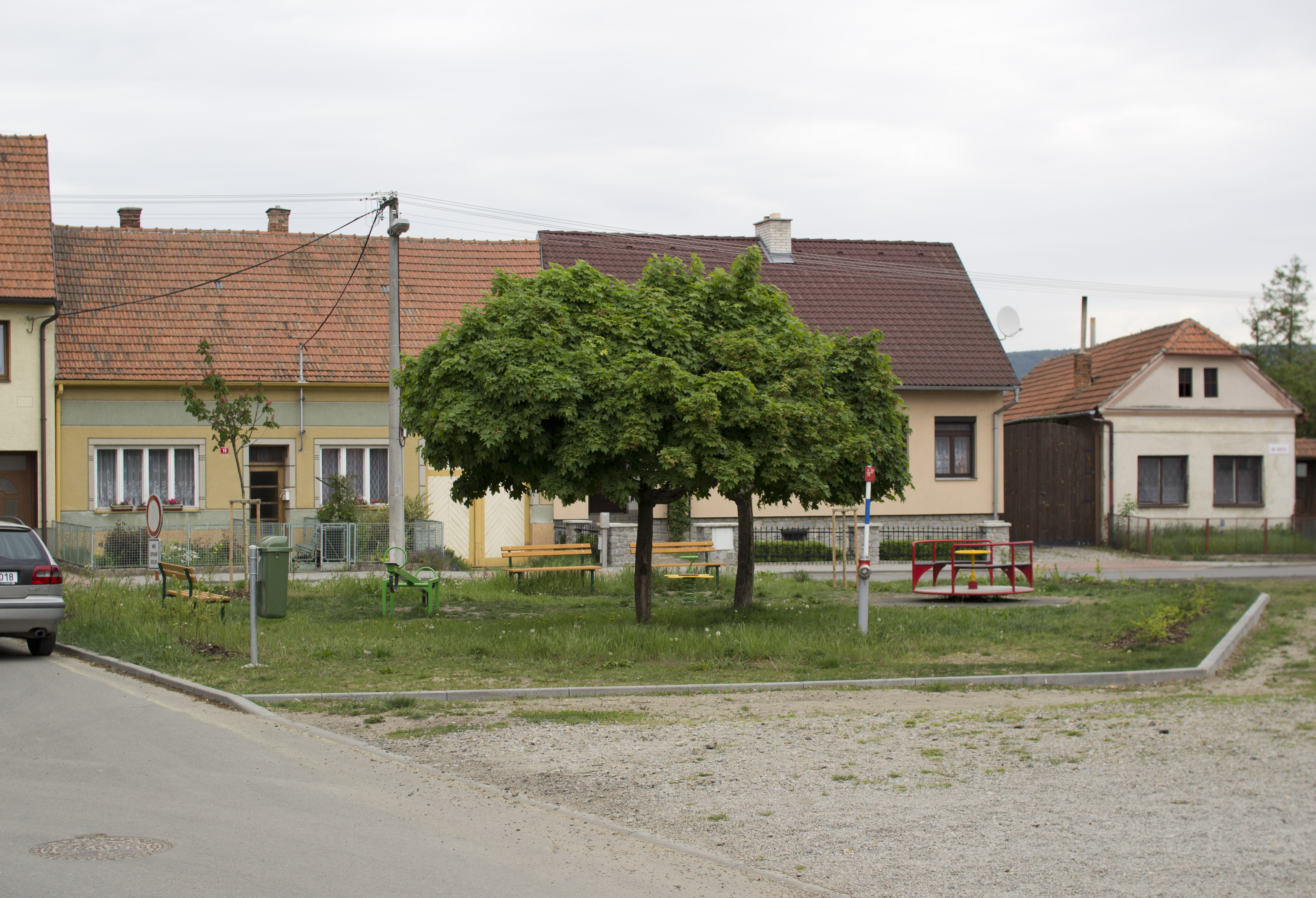 Village square, Němčice, Ivančice, Brno-Country District, South Moravian Region, Czech Republic